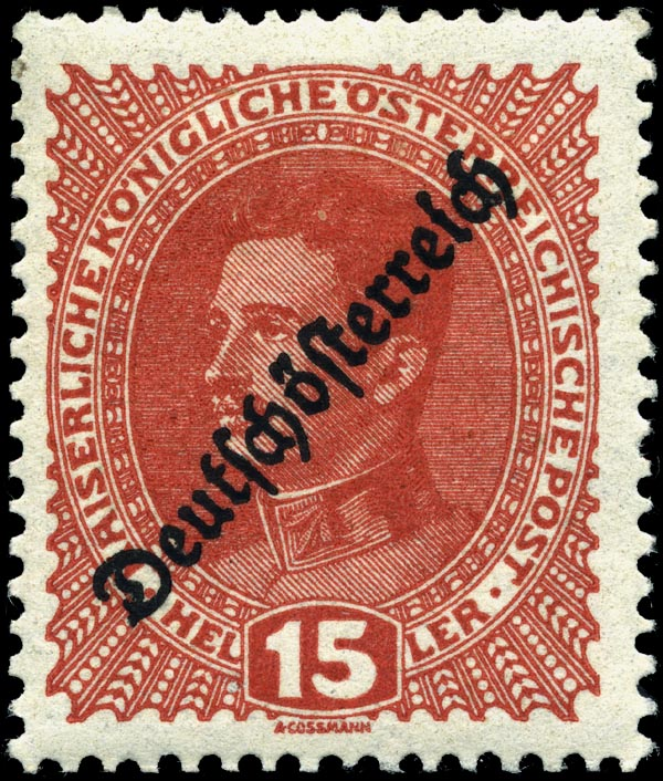 German Austria 15-heller overprint stamp of 1918